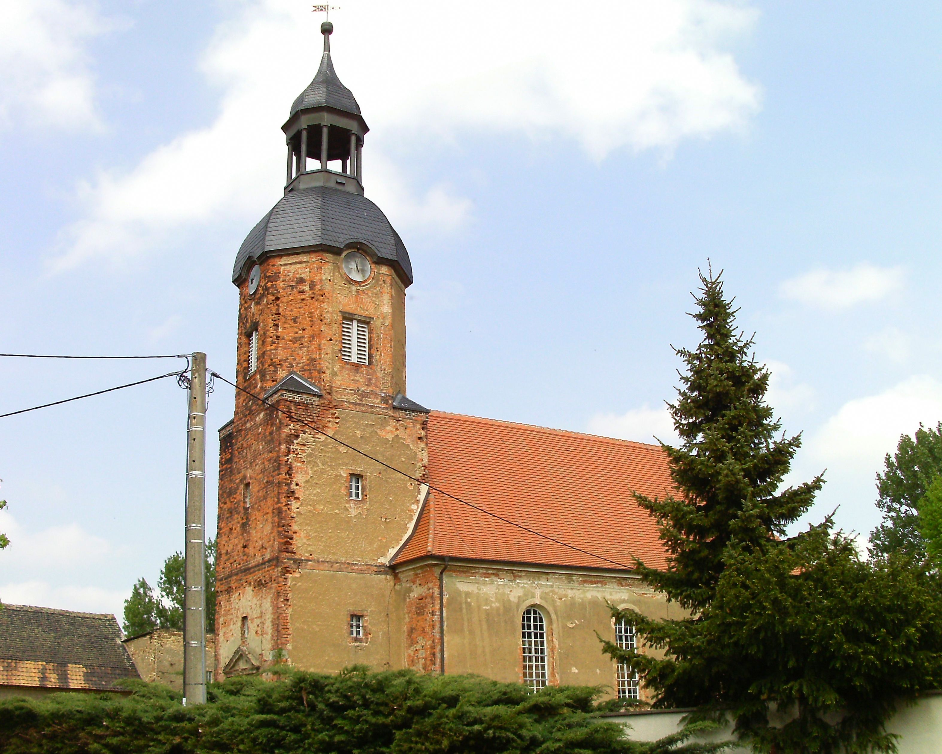 Rödgen church (Zschepplin, Nordsachsen district, Saxony)